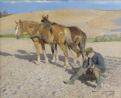 "Resting"